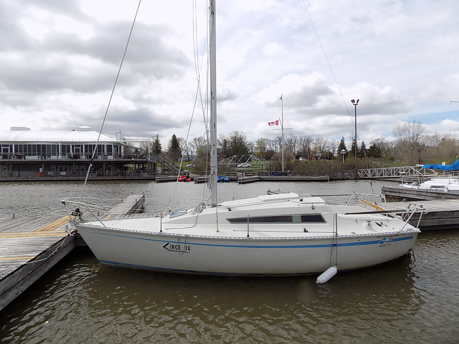 A Jouet 760 sailboat named Circe IV